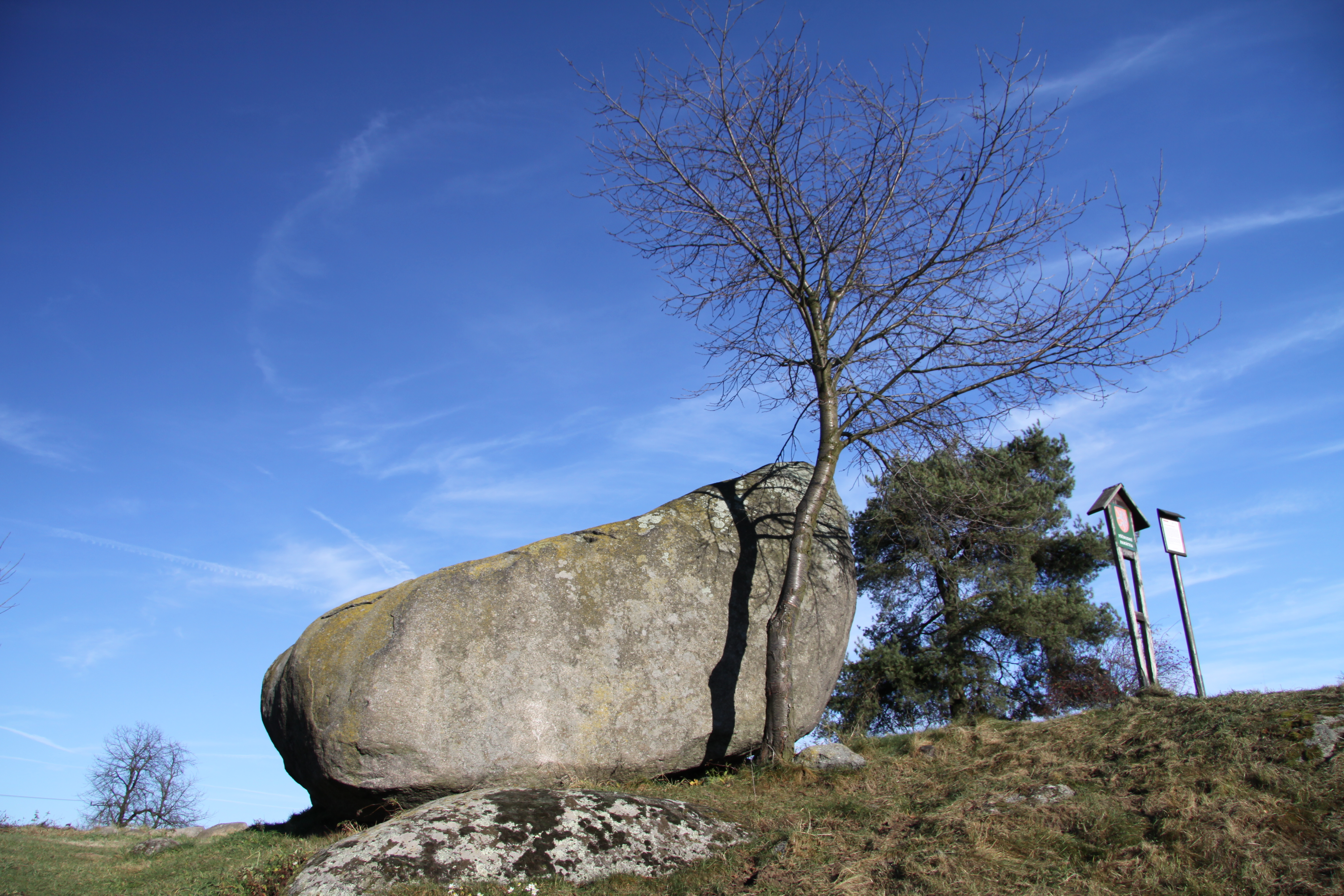 Natural monument Vrškámen south-eastern from Petrovice, Příbram District, Czech Republic - Google Maps - Google Earth